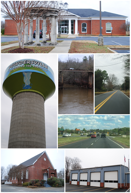 Pictures I took around Powdersville, SC